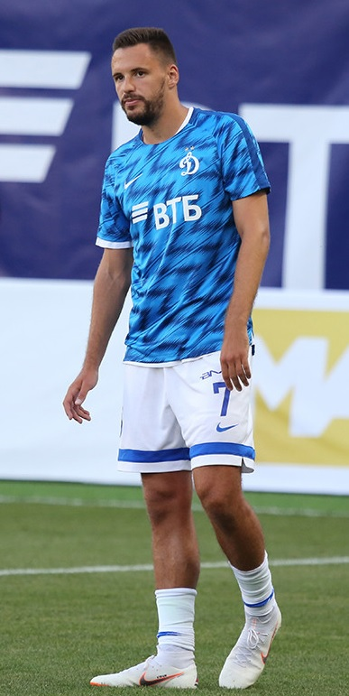 Yevgeni Markov with FC Dynamo Moscow in a game against FC Rubin Kazan.